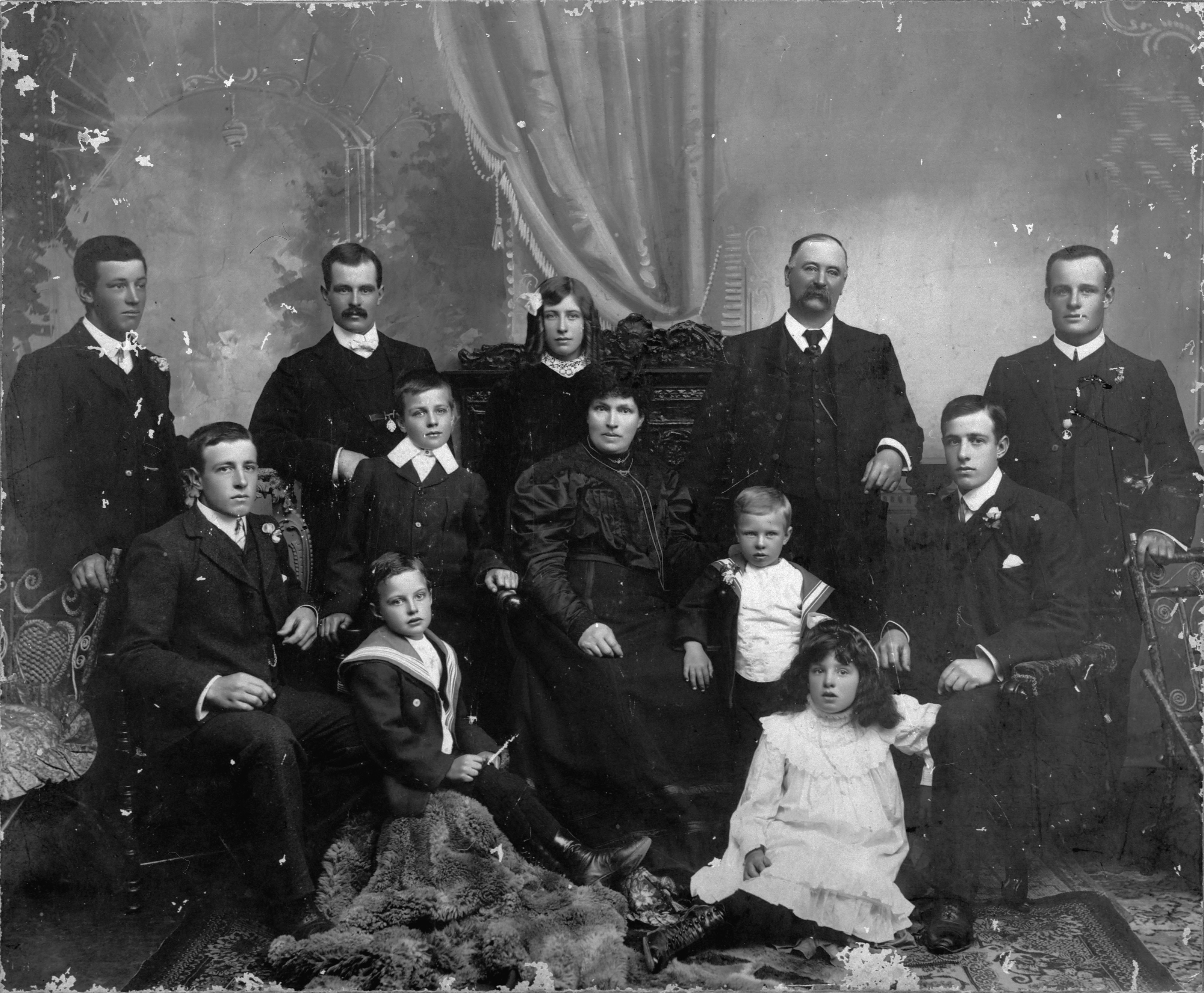 Group portrait of the Gapes family (descendants of James Gapes), taken by an unidentified photographer, circa 1907. Included are: (L-R, Back) Victor, George, Dorothy, Mr G Gapes, Fred; (L-R, Middle) Charles, Arthur, Mrs Elizabeth Gapes, Roland, Walter; (L-R, Front) Harold, Mabel.